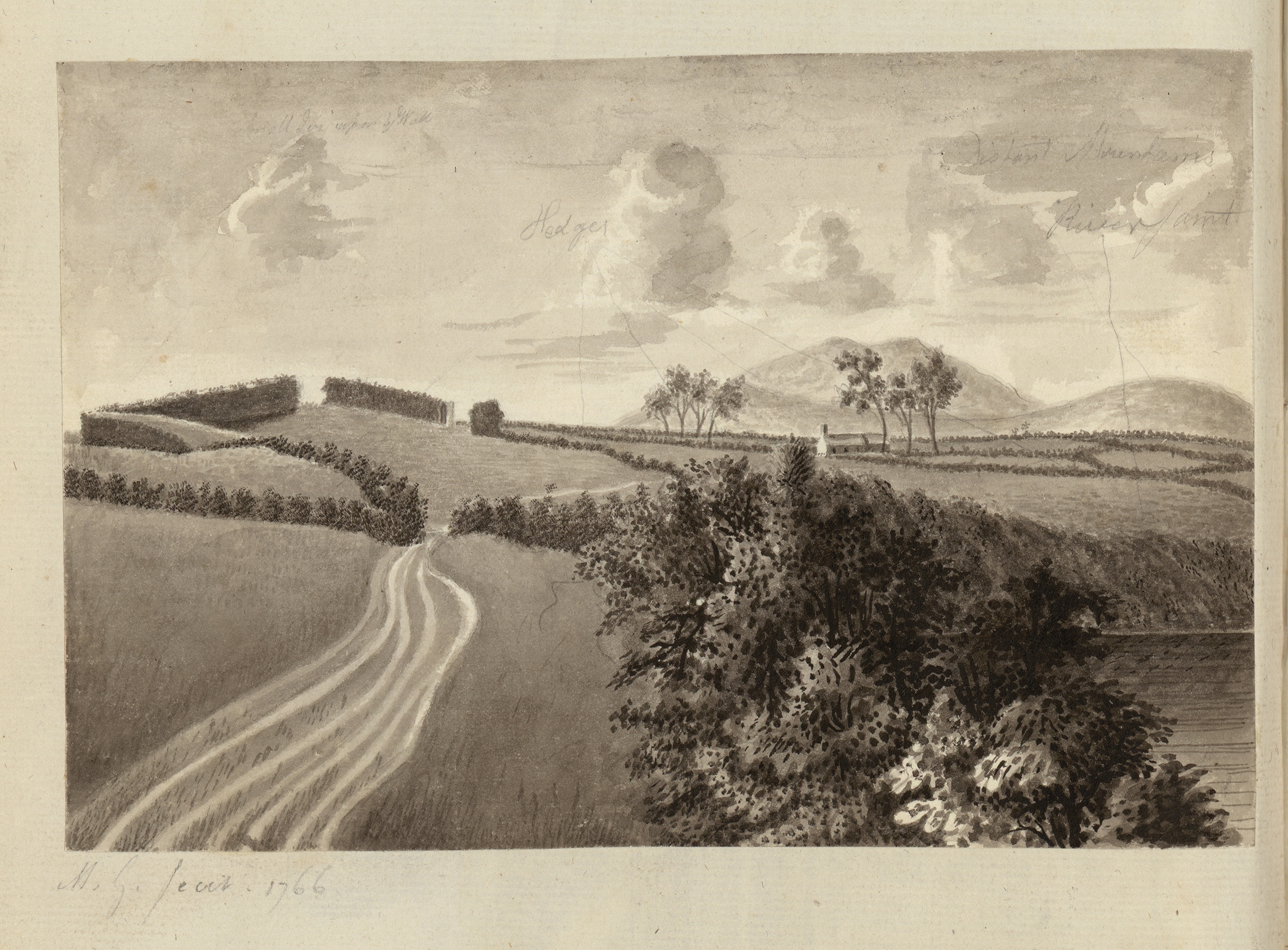 An image from a set of 8 extra-illustrated volumes of A tour in Wales by Thomas Pennant (1726-1798) that chronicle the three journeys he made through Wales between 1773 and 1776. These volumes are unique because they were compiled for Pennant's own library at Downing. This edition was produced in 1781. The volumes include a number of original drawings by Moses Griffiths, Ingleby and other well known artists of the period. Thomas Pennant (1726-1798)